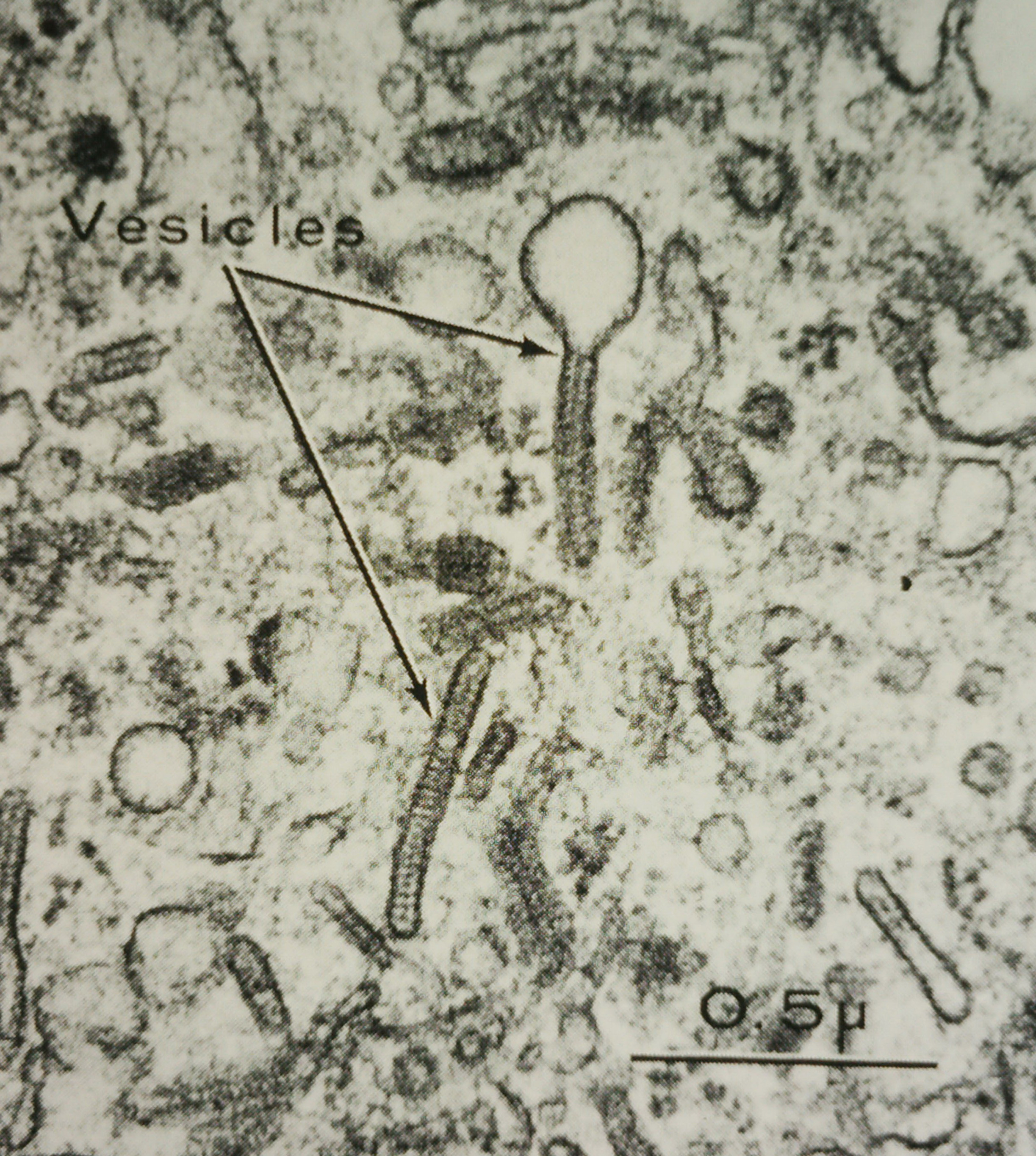 This electron micrograph shows multiple Birbeck granules one of which shows a rod like structure with a central linear density and cross striations with a clear bulbous expansion (vesicle) at one end. Their appearance resembles that of a tennis racket. Birbeck granules are specific for Langerhans cells. Contributed by Philip Kane, MD.